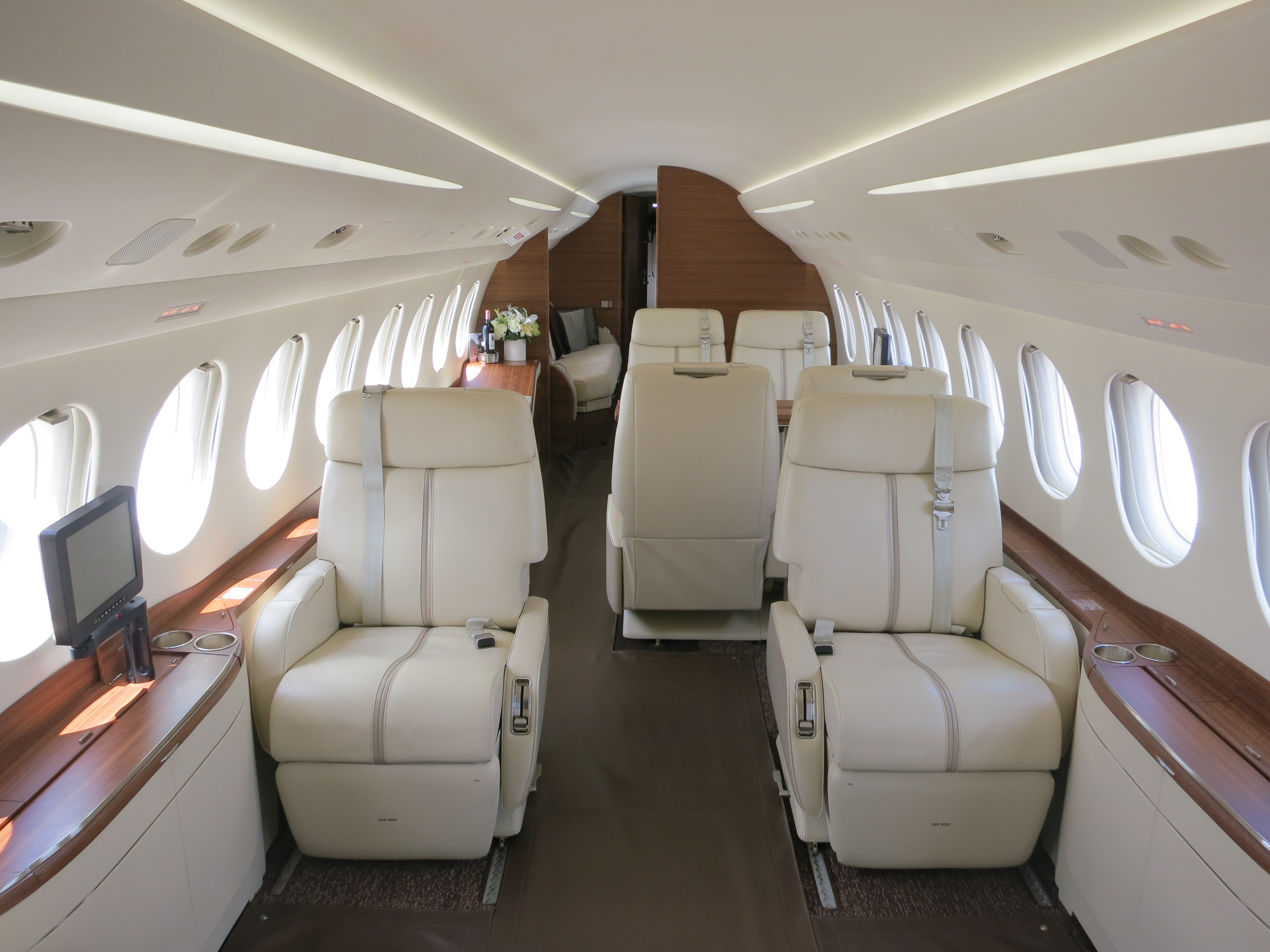 Dassault Falcon 7X forward cabin interior